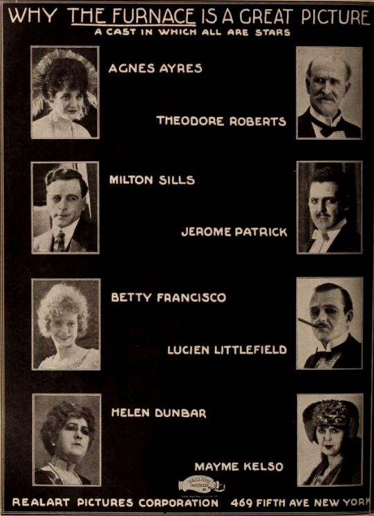 Advertisement for the American film The Furnace (1920) with Agnes Ayres, Theodore Roberts, Milton Sills, Jerome Patrick, Betty Francisco, Lucien Littlefield, Helen Dunbar, and Mayme Kelso, on page 12 of the December 4, 1920 Exhibitors Herald.